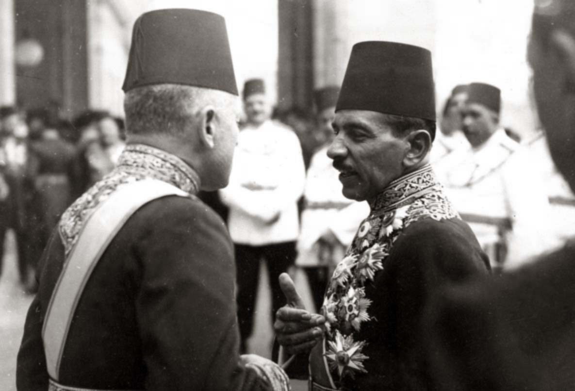 Ali Maher Pasha (right) in an official party with Youssef Zulficar Pasha (left).